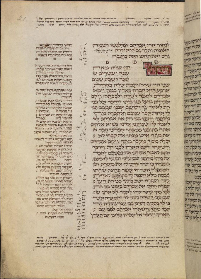 Page from a Hebrew Bible, Shelfmark: MS. Kennicott 3 (not the Kennicott Bible, but one from the same collection). Item description: "Humash (Pentateuch) with Onkelos (Aramaic translation), the Five Scrolls (Song of Songs, Ruth, Ecclesiastes, Lamentations, and Esther) and Haftarot (selections from the books of Prophets). With both Masorahs and vocalized (except for the last two Haftarot on Ta‘anit)". Digitised by the Polonsky Foundation Digitization Project. More provenance information at